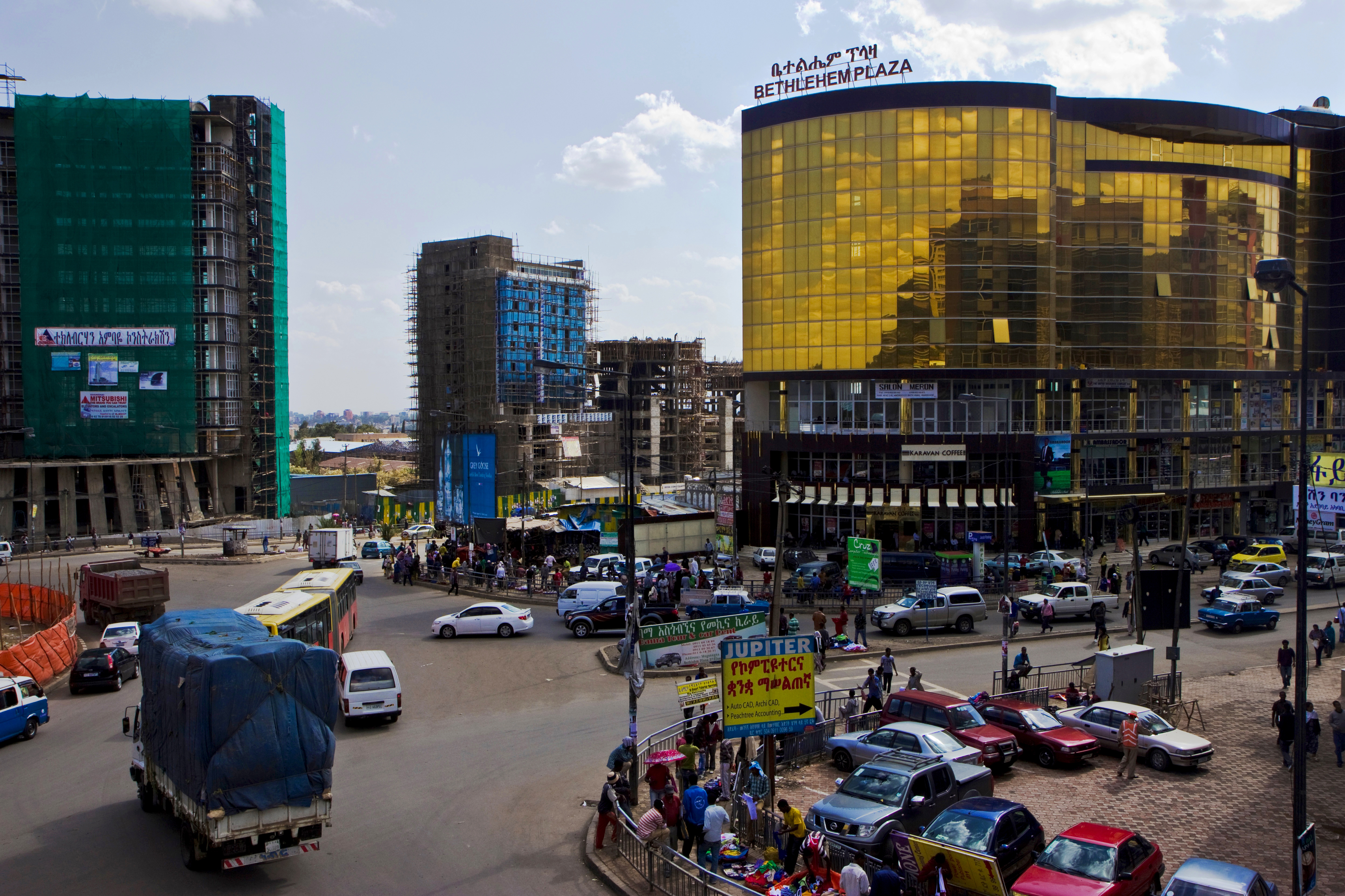 Today, Ethiopia's capital Addis Ababa is a bustling centre of business and trade – as well as being home to the African Union's headquarters. Skylines like this across the country are ever-changing, with new tower blocks and residential buildings rising upwards. As Ethiopia's cities grow, so do the construction opportunities. Picture: Simon Davis/DFID Terms of use This image is posted under a Creative Commons - Attribution Licence, in accordance with the Open Government Licence. You are free to embed, download or otherwise re-use it, as long as you credit the source as 'Simon Davis/Department for International Development'.